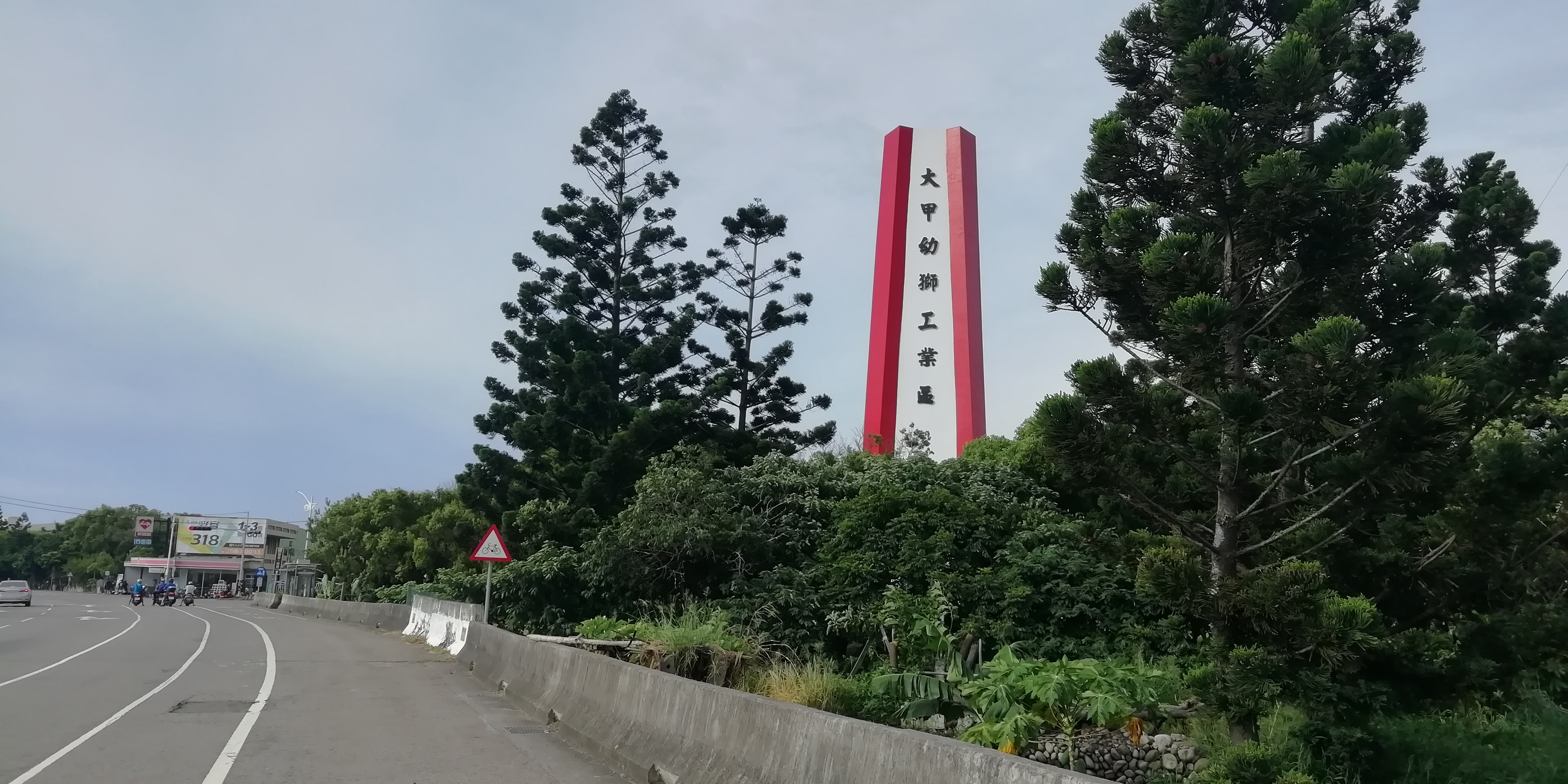 Dajia Youshih Industrial Park